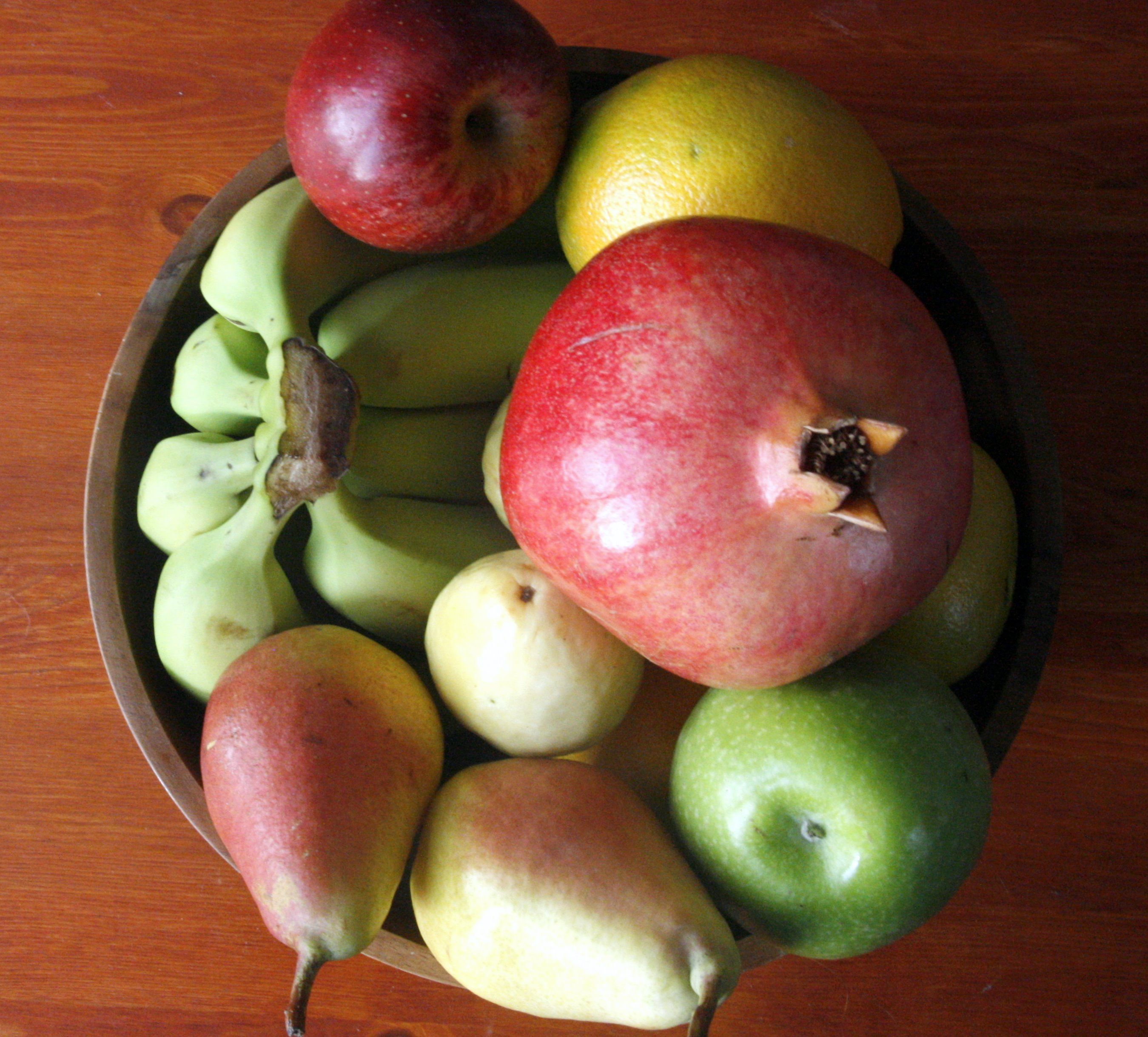 Fruit bowl - containing a pomegranate, pears, apples, bananas, oranges and guavas